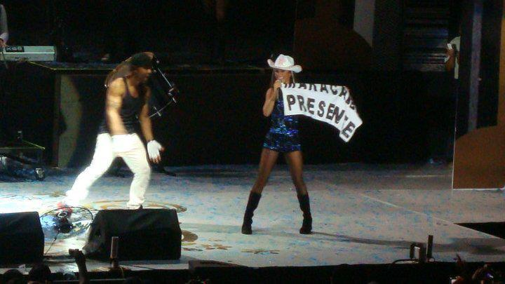 Anahi, during his tour Mi Delirio World Tour in San Cristobal, Venezuela. Taken January 22, 2011.